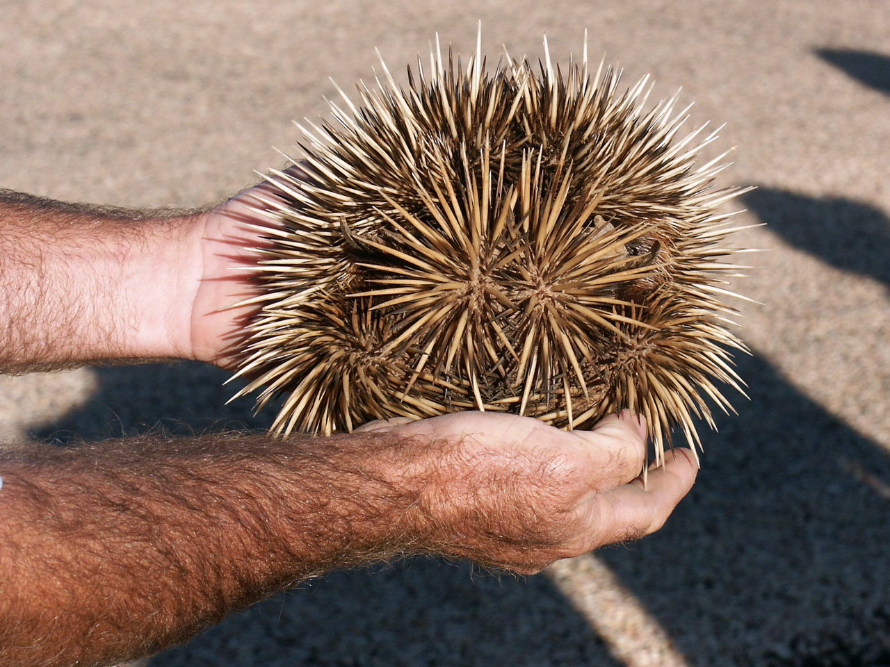 Echidna curled into a ball, being moved off road near Exmouth, Western Australia.